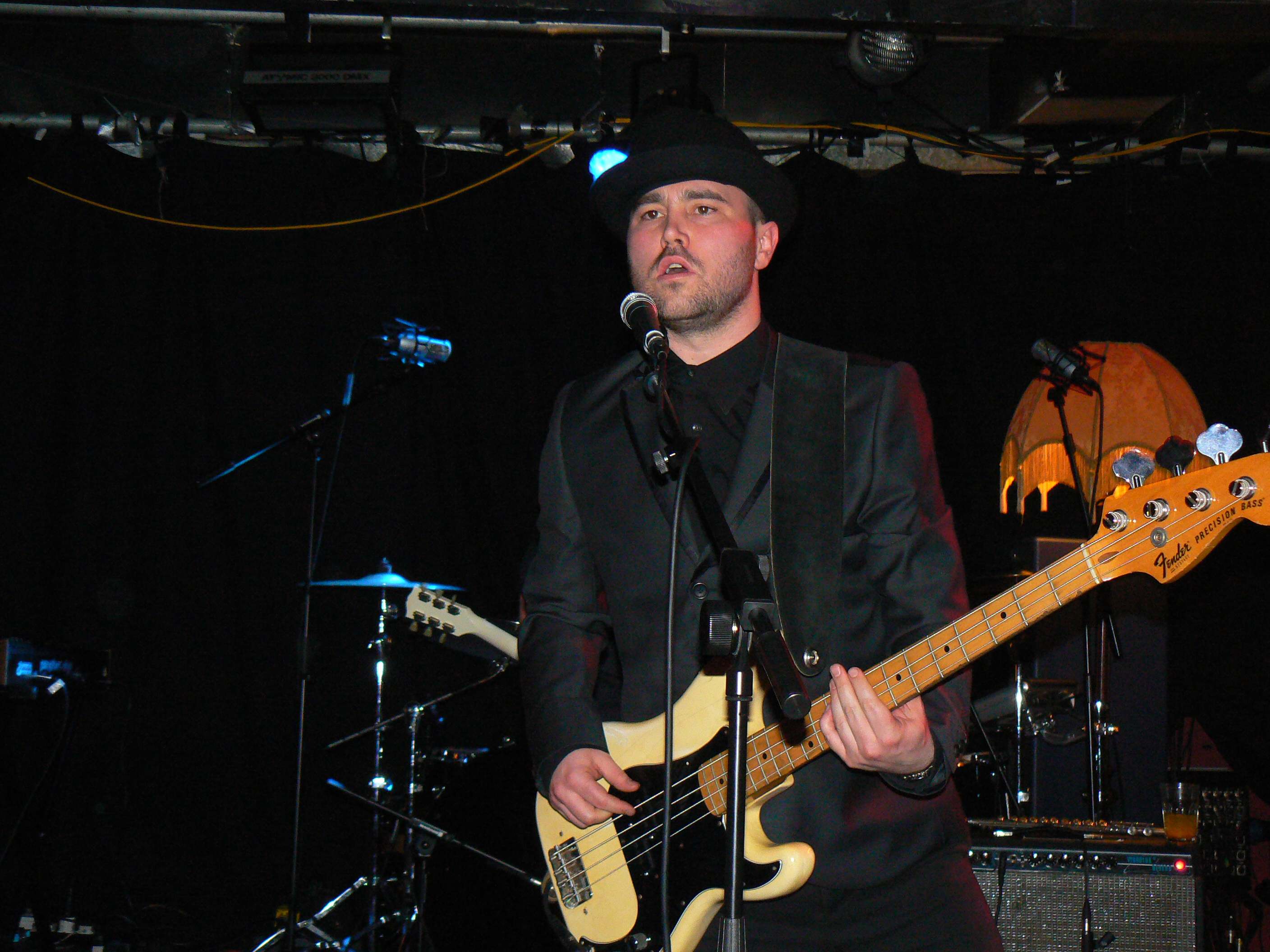 Evan Cranley performing with Stars on January 26, 2008 at Moshulu, Aberdeen, Scotland